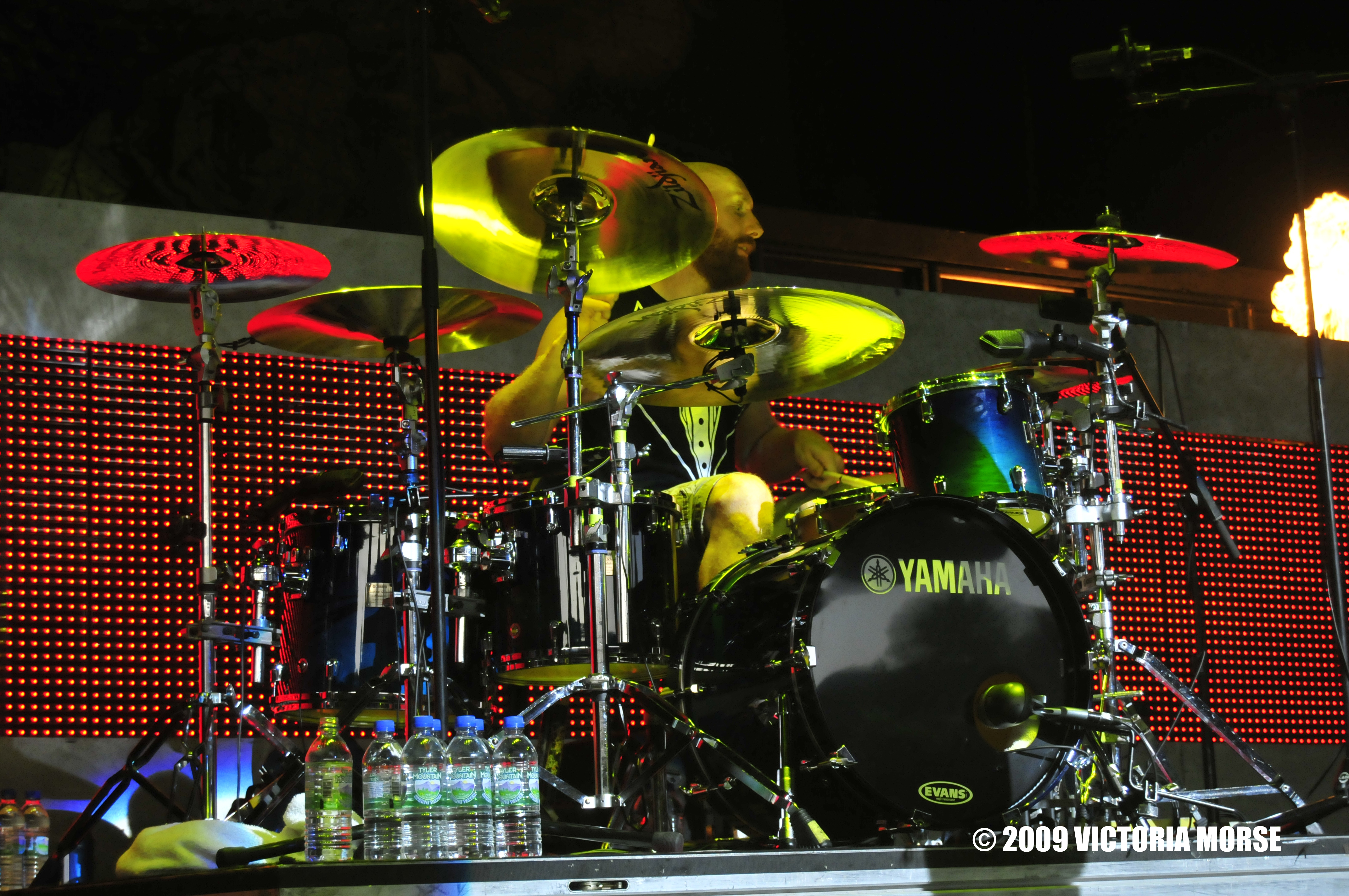 Justin Foley baterist